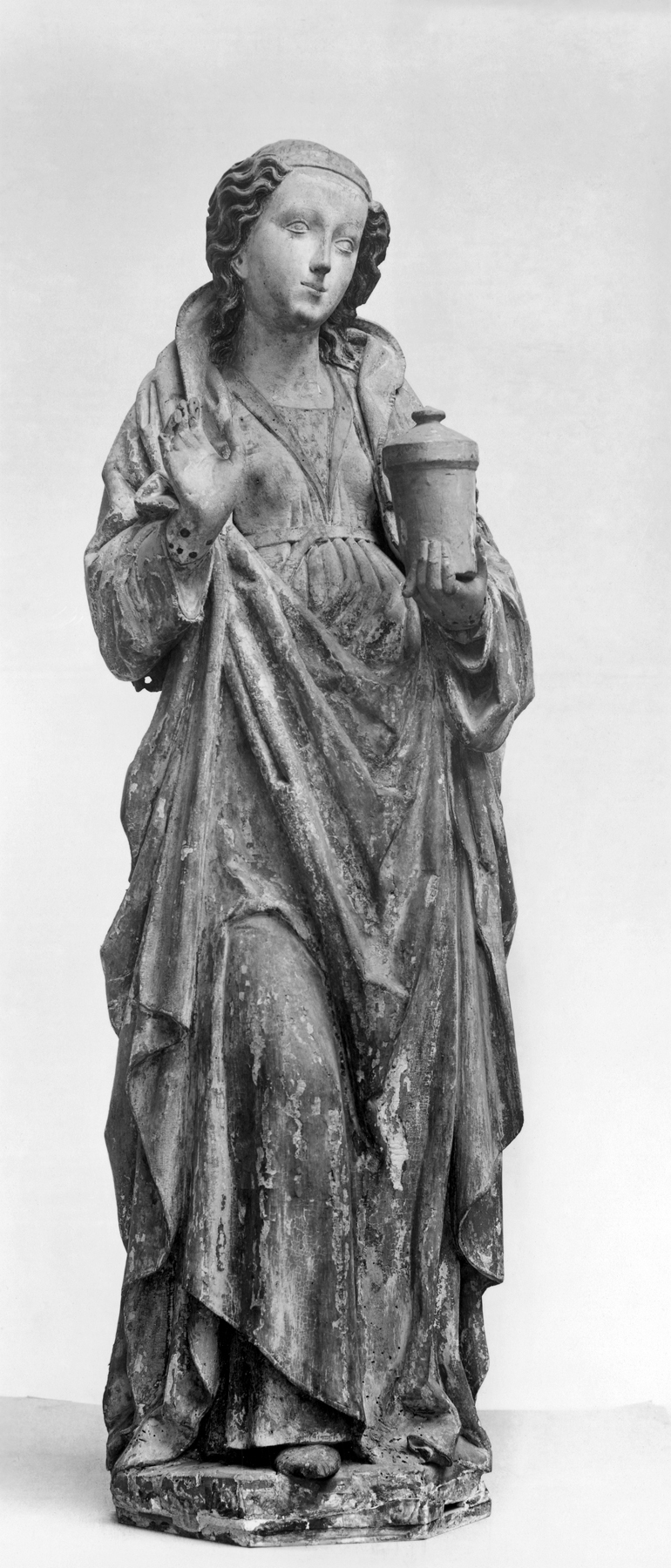 This figure of Mary Magdalene, identified by the ointment jar, is probably from a group of the Three Marys at the Tomb. On Easter morning, the women approached the tomb of Christ in order to anoint the body. Mary Magdalene's surprise at finding the tomb empty is delicately expressed by her raised right hand and backward step. Such carved wooden statues came from a church interior. Most statues of this type were originally covered by gesso (a mixture of glue and plaster of Paris) and then painted in vibrant colors, with some details gilded; only traces of these decorations still remain.